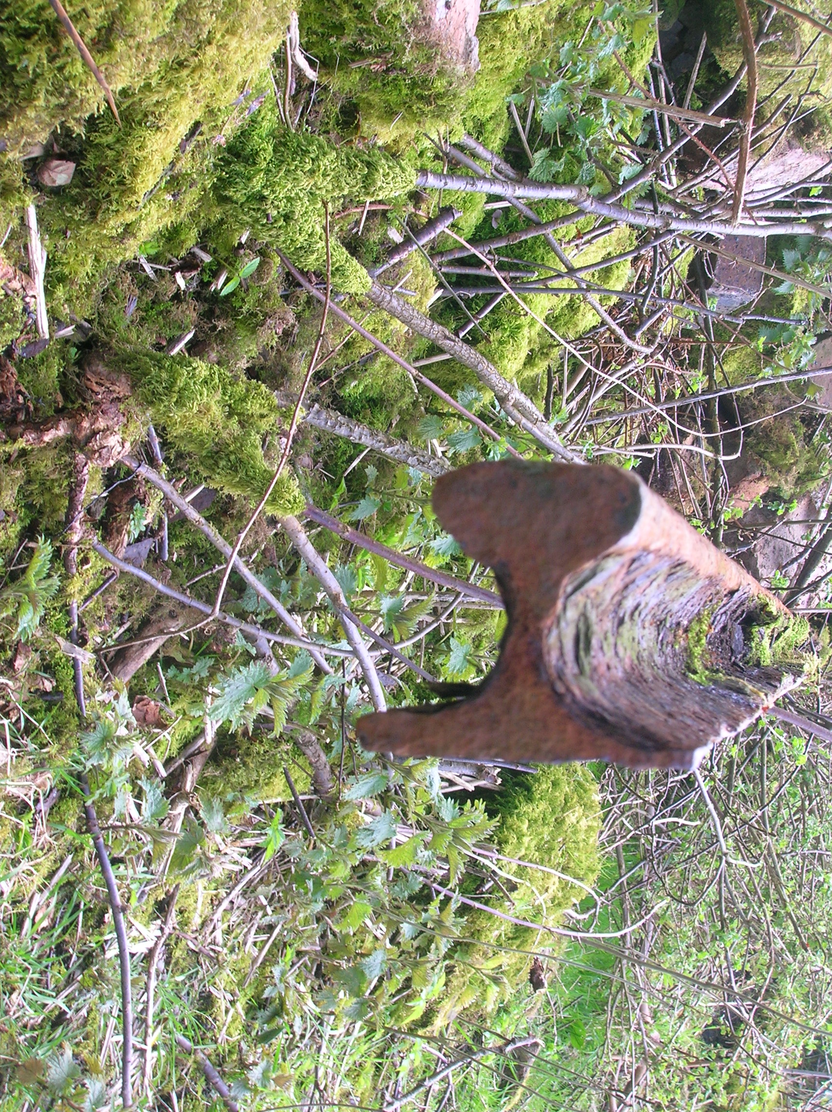 A Vignole rail from the 1830s Ardrossan and Johnstone Railway Millburn Drive, Benslie, North Ayrshire, Scotland.